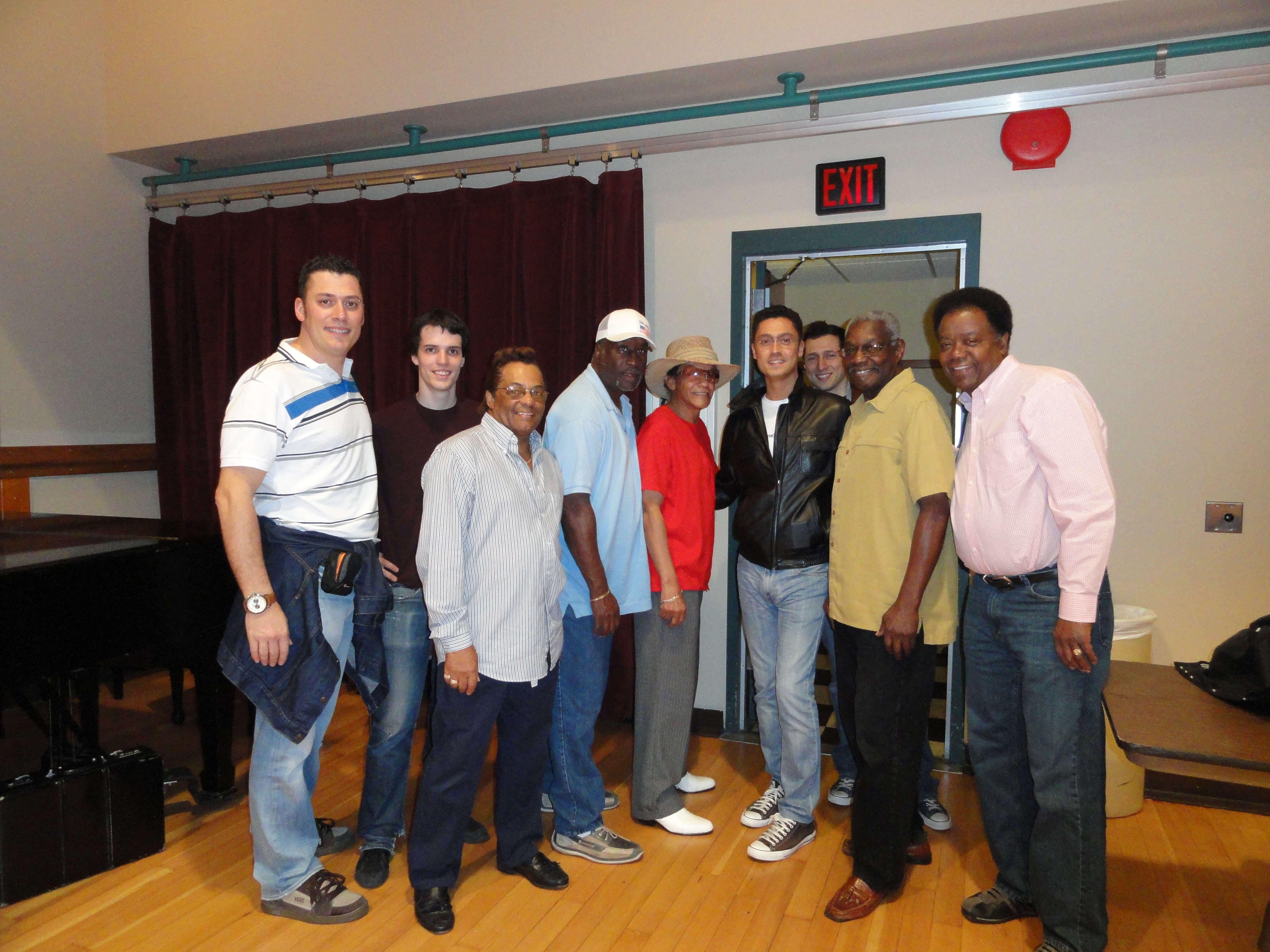 The Marcels with The Earth Angels, all members of vocal harmony doo wop bands. The picture was taken during their participation in the doo wop festival celebrated in may 2010 at the Benedum Center for the performing arts in Pittsburgh, Pennsylvania.